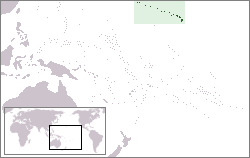 Locator map of the Hawaiian Islands